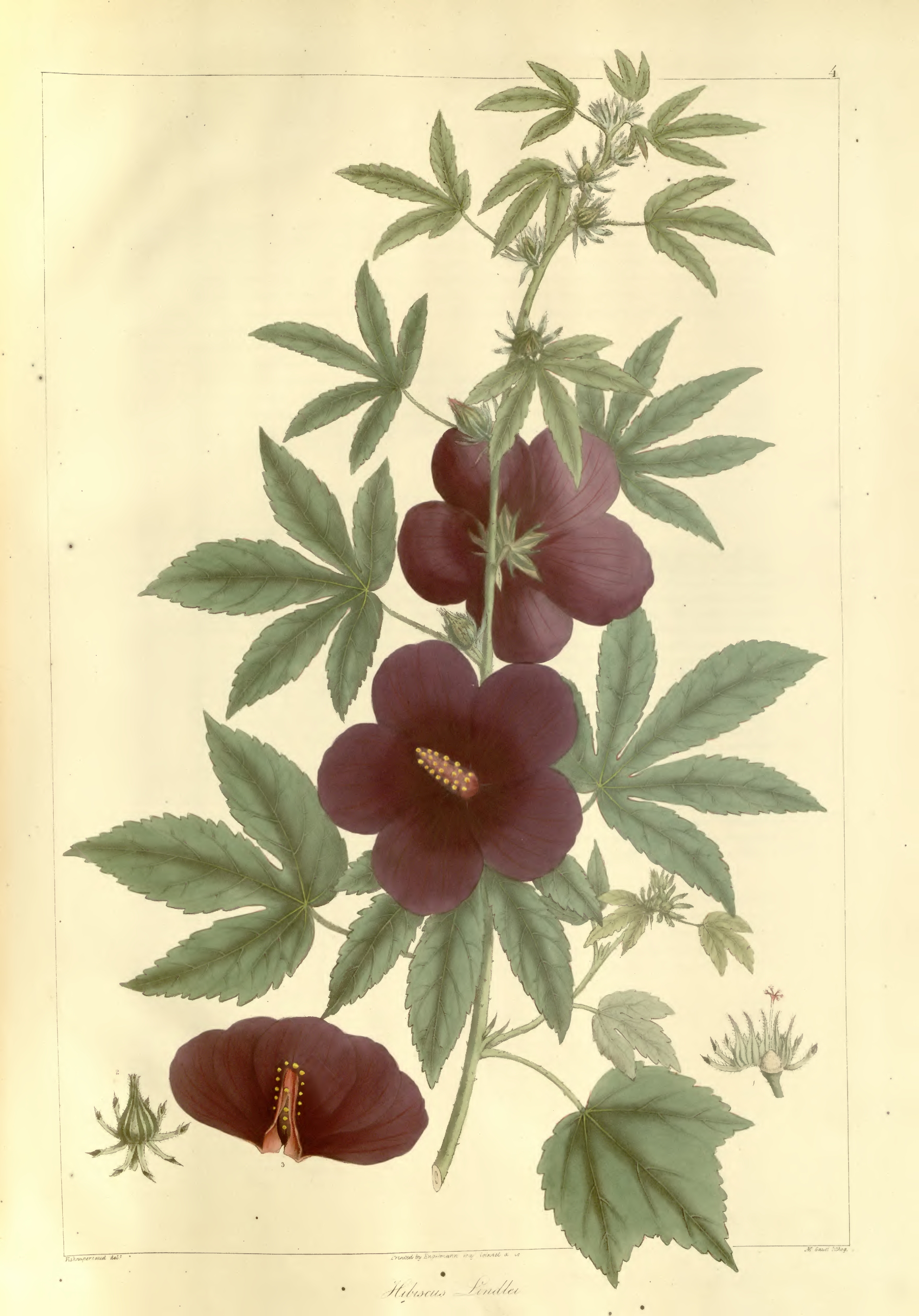 Hibiscus Lindlei (variant of Hibiscus radiatus)